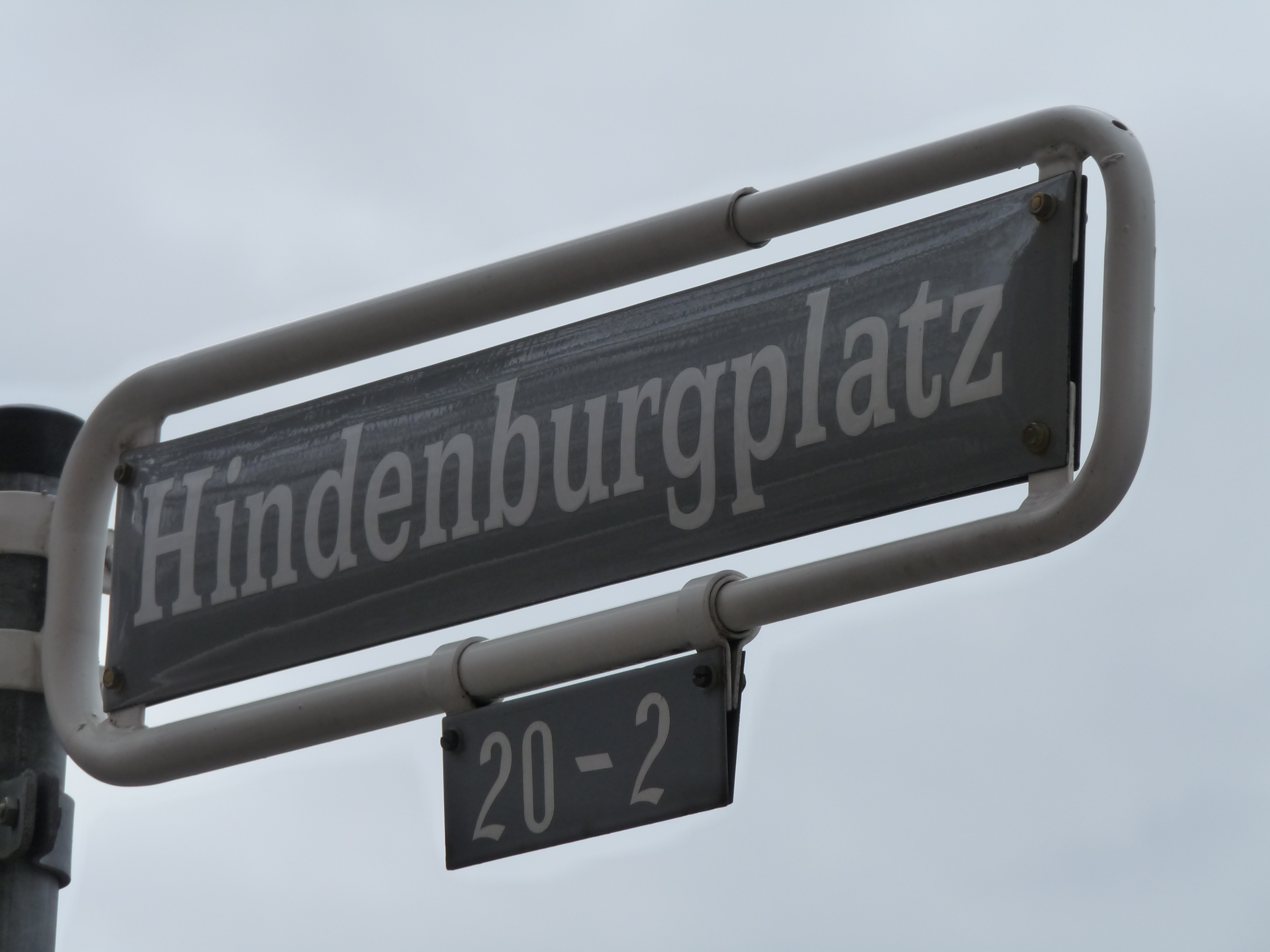 Street sign: Hindenburgplatz in Münster